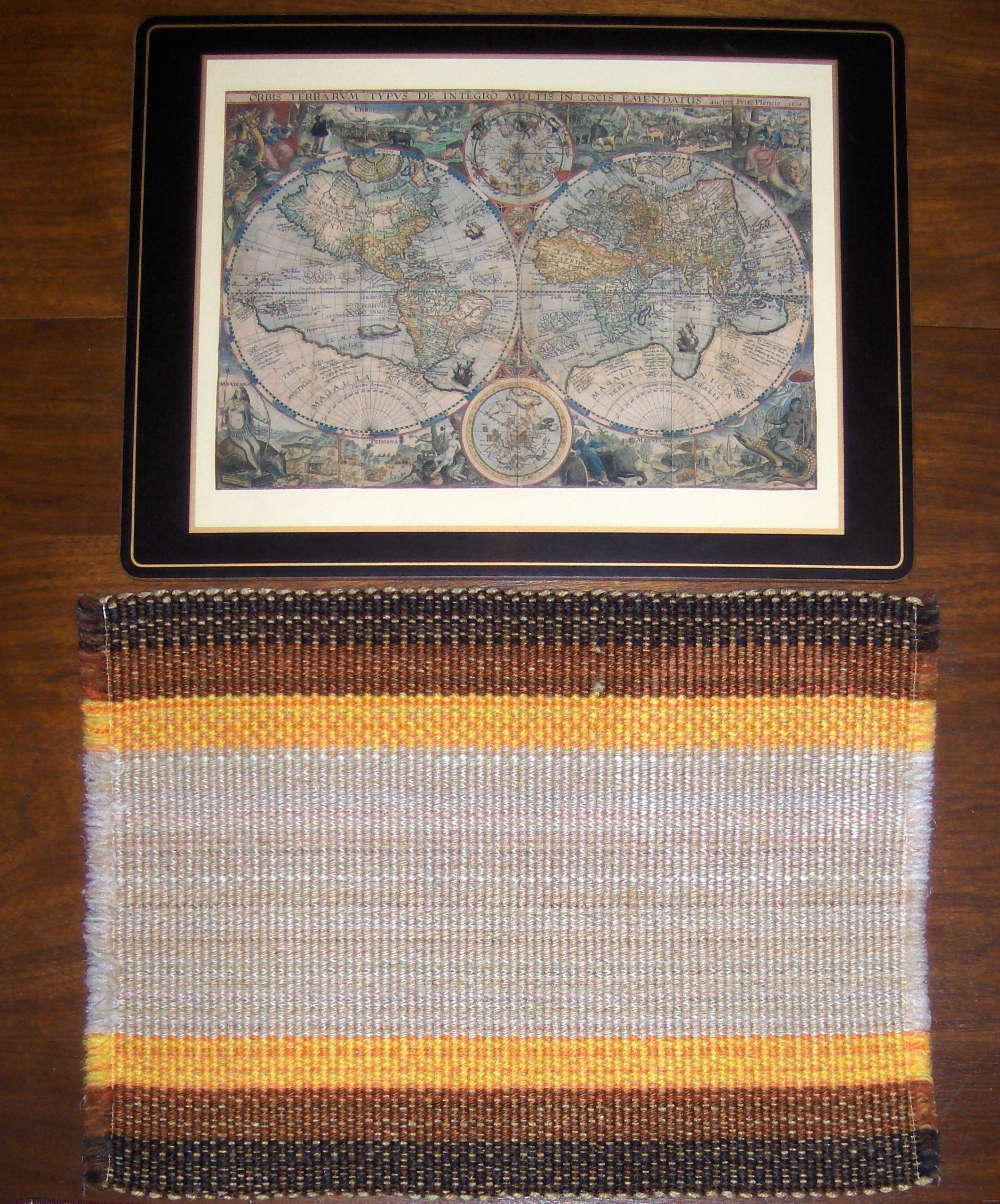 Two types of North American placemats. The top is a reprint of a 16th-century map by Petrus Plancius.